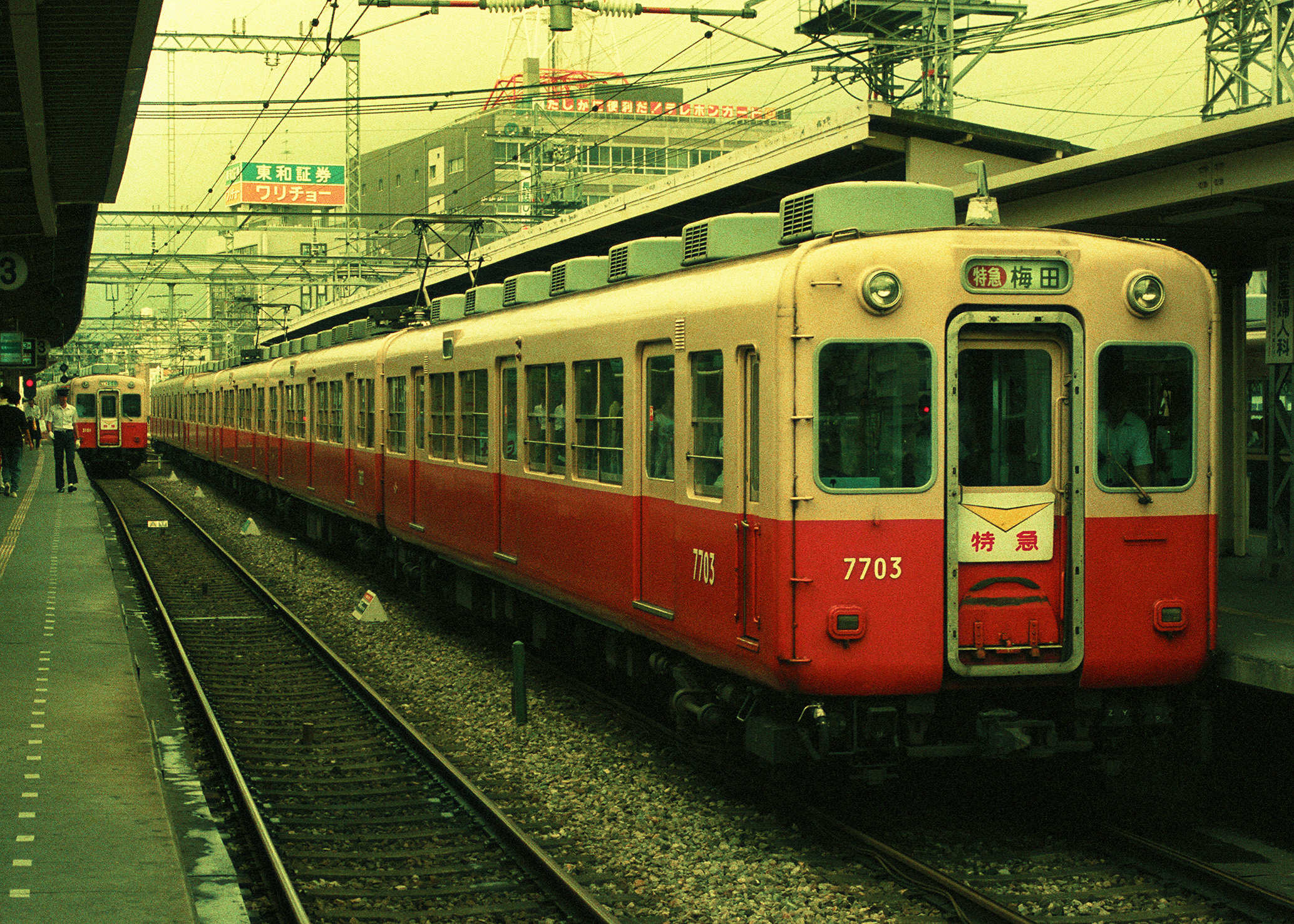 Hanshin Electric Railway 7701 series EMU for the limited express train 7703 at Nishinomiya Station Built in 1961